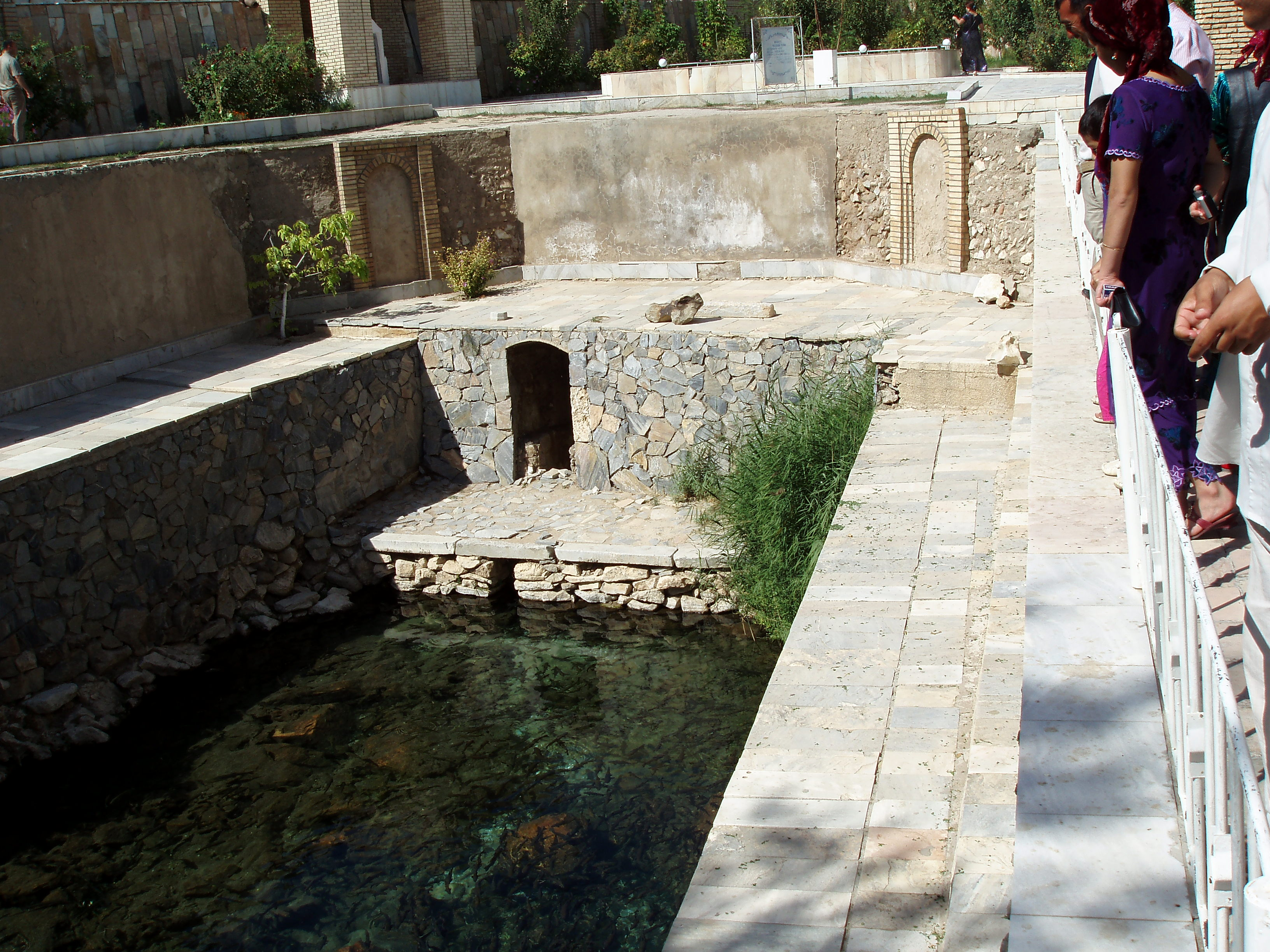 "holy fish" swimming in "holy water" of chashma spring in Nurata, Navoiy, Uzbekistan